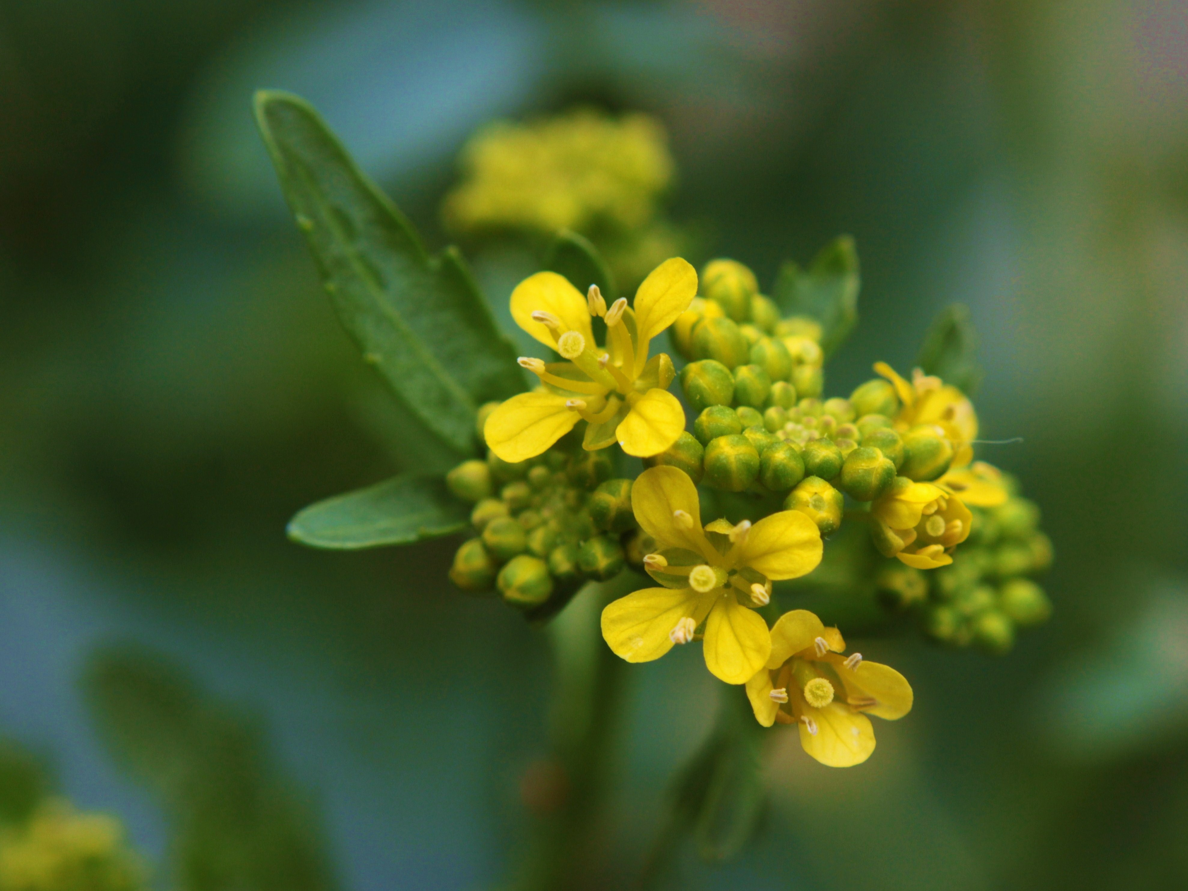 Detail of Sisymbrium officinale flower.